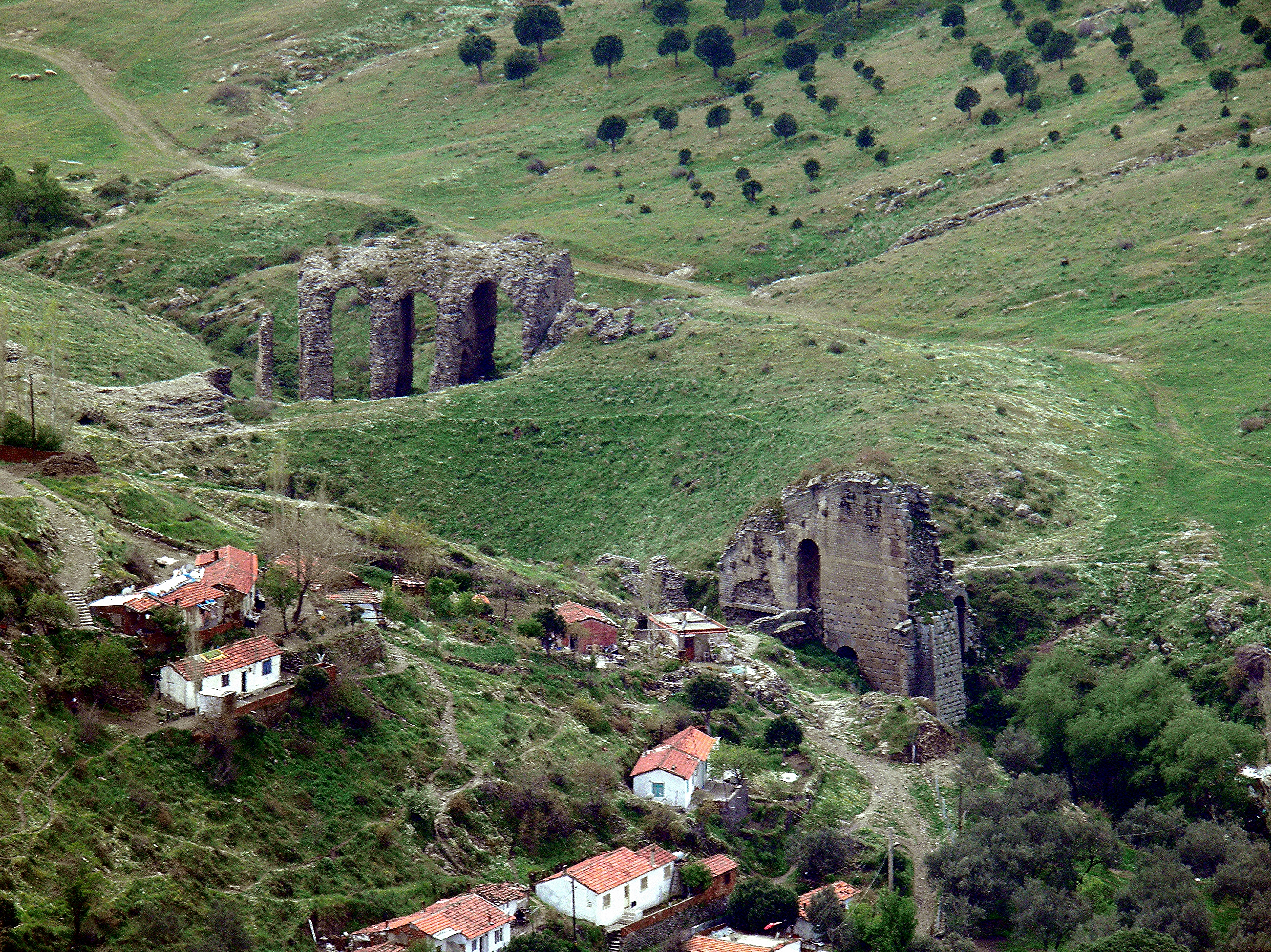 The remains of Roman amphitheatre (view from the Acropolis), Pergamon